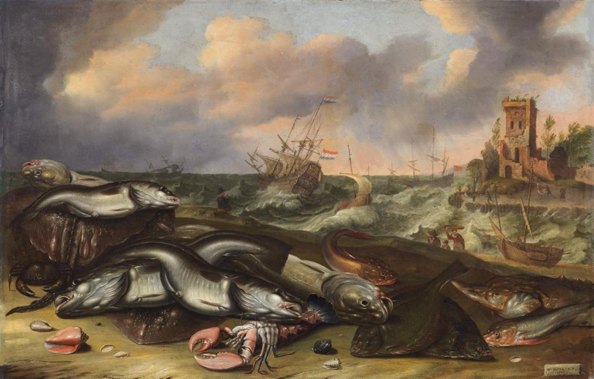 Fish Still Life with Stormy Sea, a Dutch Golden Age painting combining maritime painting with the Dutch still life